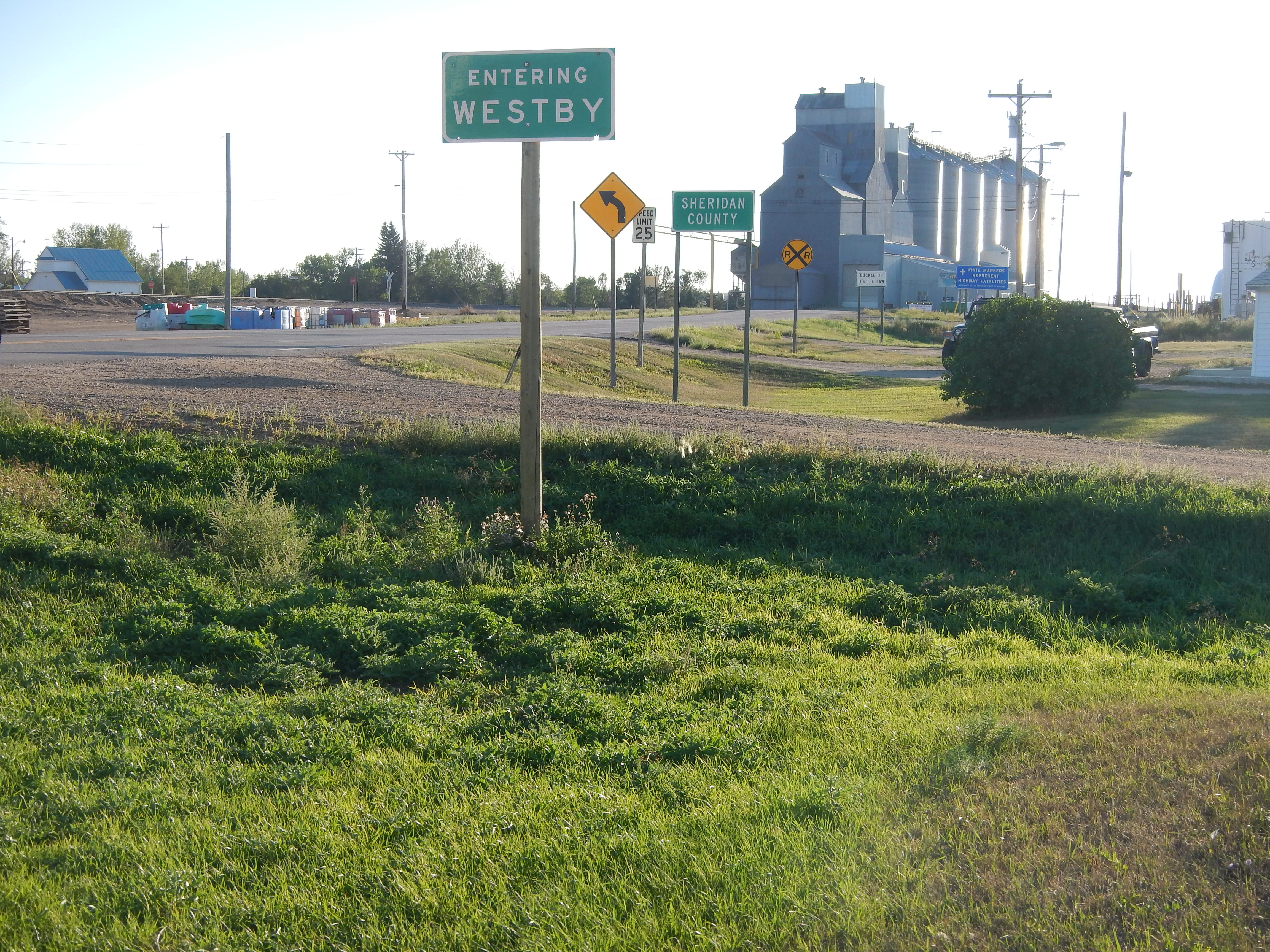 At all corners of Montana and points between, Bromus inermis (smooth brome) as nearly always present in great abundance along roadsides, in pastures, and elsewhere from low to middle elevations in the mountains. Kochia scoparia is also common here in this roadside setting.